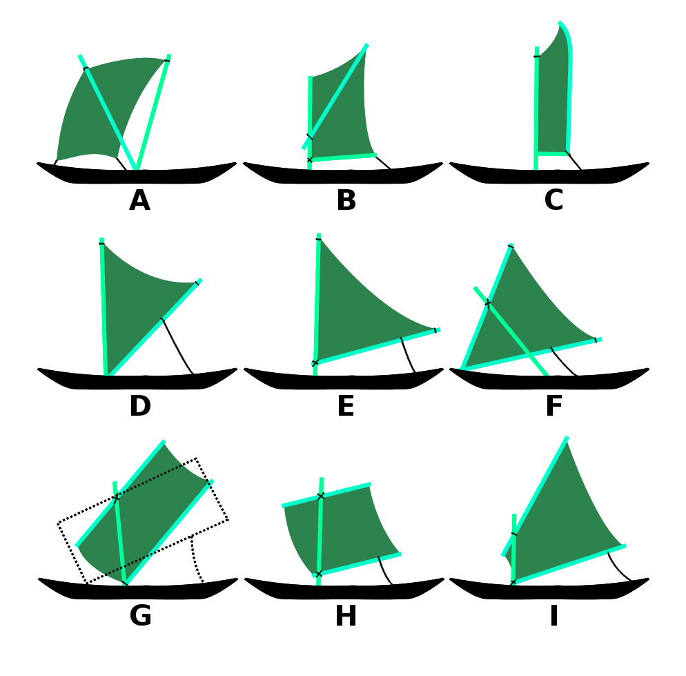 Austronesian sail types: A: Double sprit (Sri Lanka) B: Common sprit (Philippines) C: Oceanic sprit (Tahiti) D: Oceanic sprit (Marquesas) E: Oceanic sprit (Philippines) F: Crane sprit (Marshall Islands) G: Rectangular boom lug (Maluku) H: Square boom lug (Gulf of Thailand) I: Trapezial boom lug (Vietnam) Per (1981) Wangka: Austronesian Canoe Origins, Texas A&M University Press ISBN: 9780890961070.